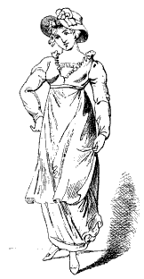 Mary Ashford, found dead in a pit near Birmingham, 1817